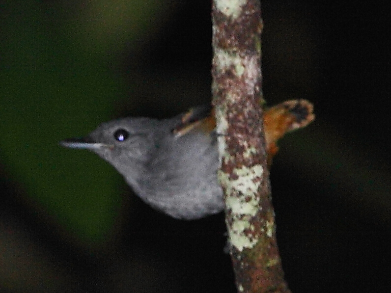 Rufous-bellied Antwren (male) at Presidente Figueiredo - AM - Brazil